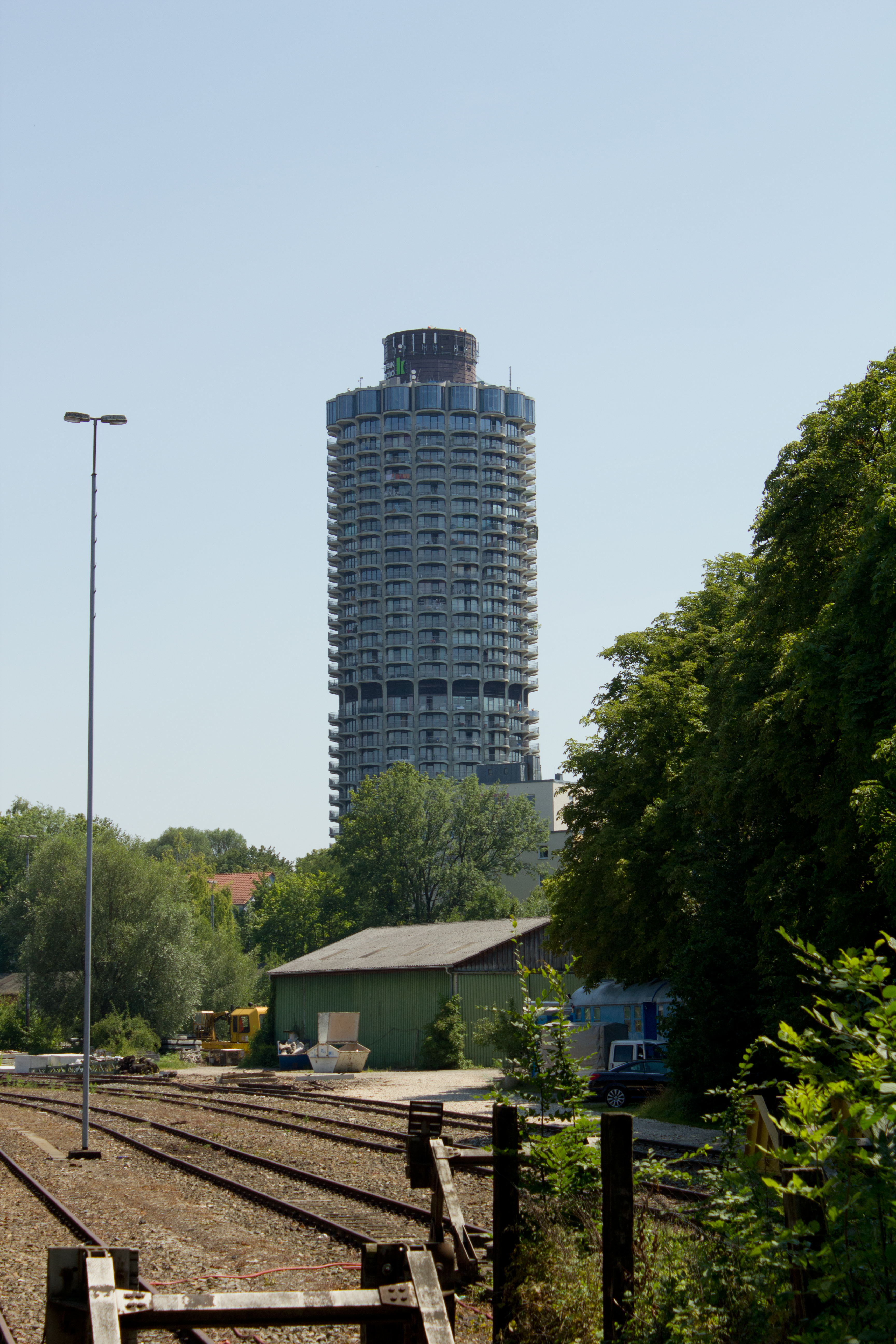 Augsburger Hotelturm without antenna mast because of replacing it on 12th and 13th July 2011